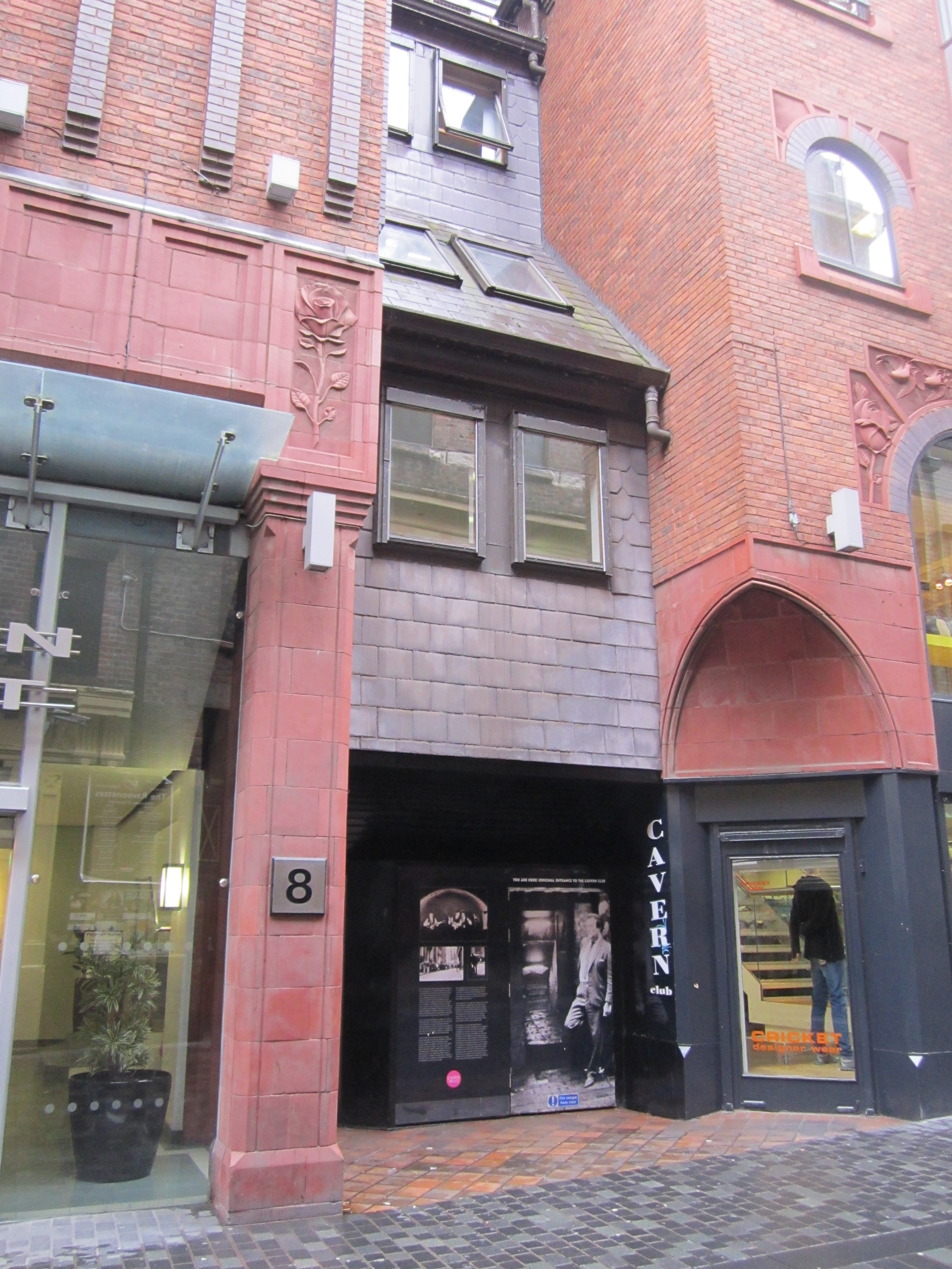 Cavern Club, Liverpool, England.